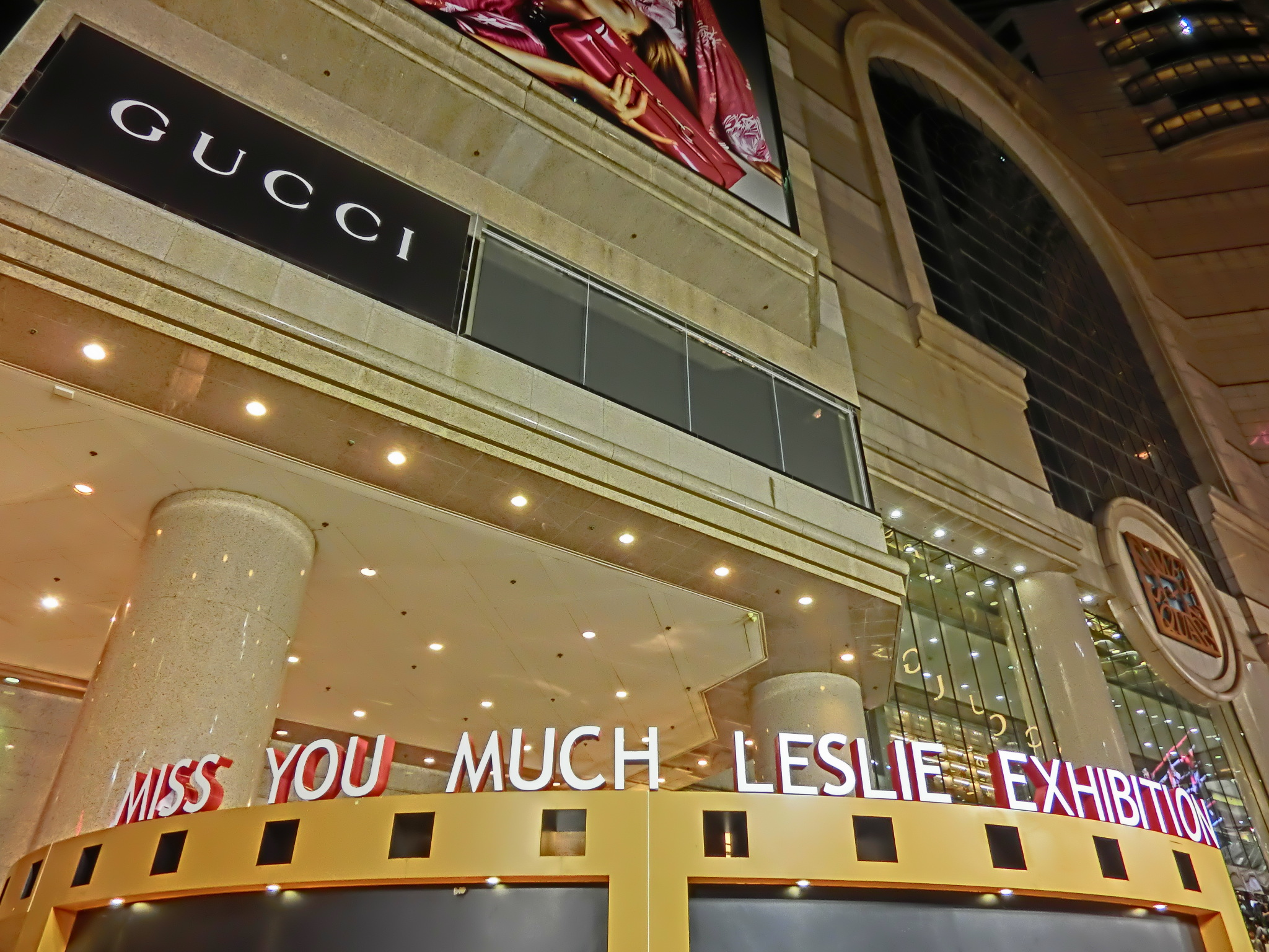 Miss You Much Leslie Exhibition 2013 in Times Square, Causeway Bay, Hong Kong